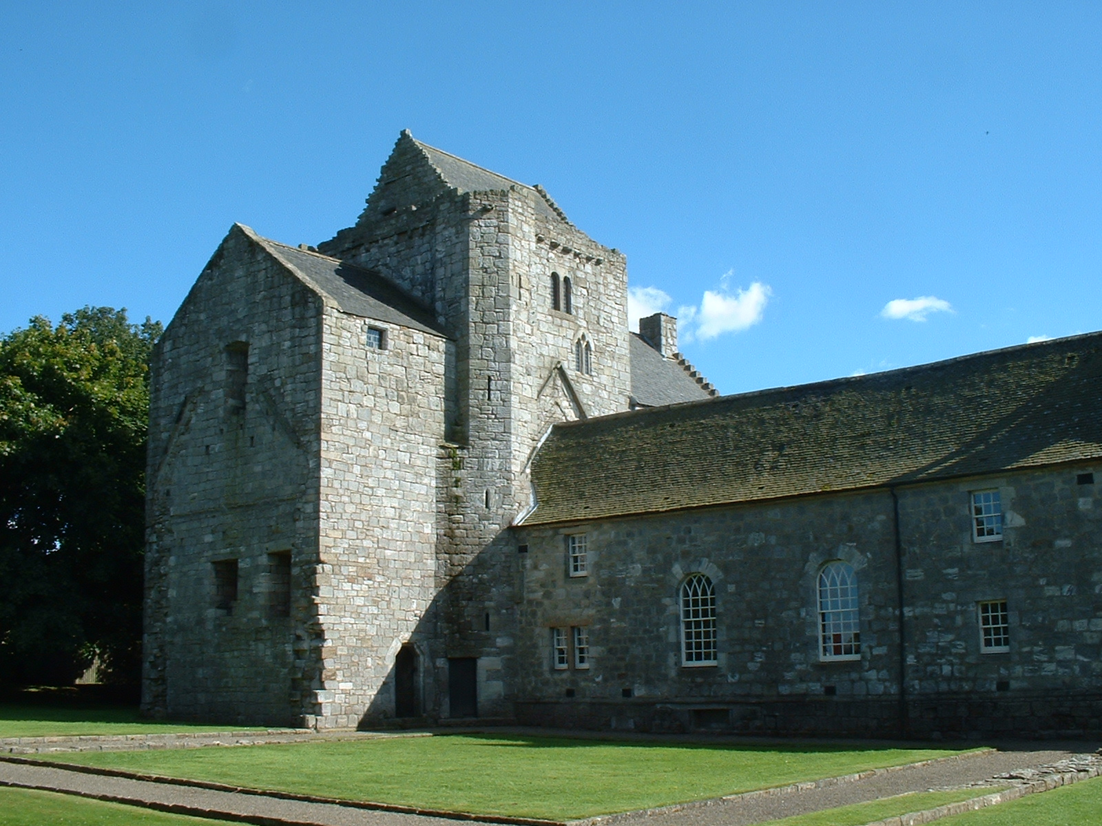 Torphichen Preceptory